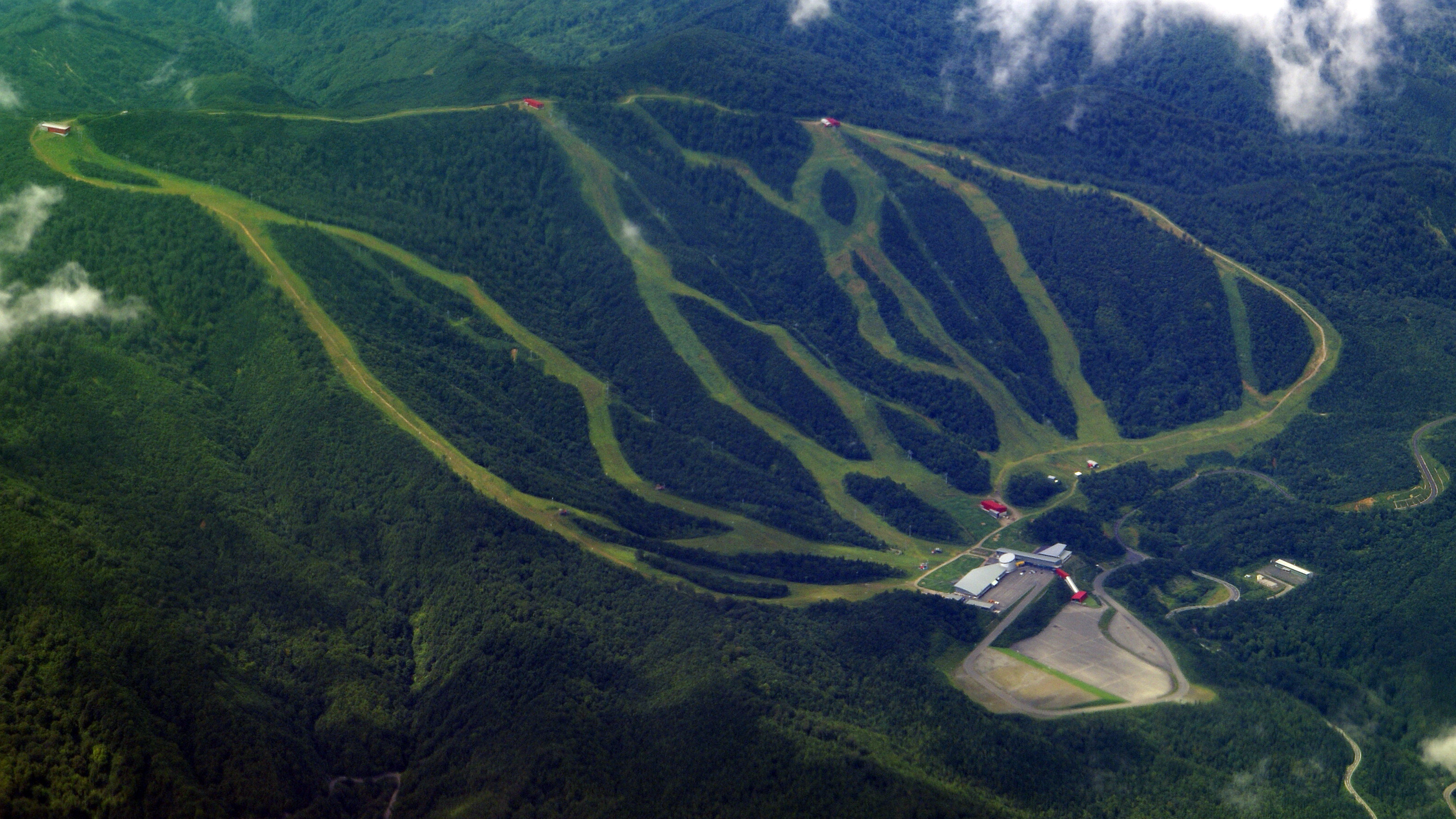 Geto highland ski resort in Kitakami, Iwate prefecture, Japan